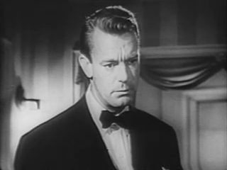 Dennis O'Keefe in the 1946 film Doll Face